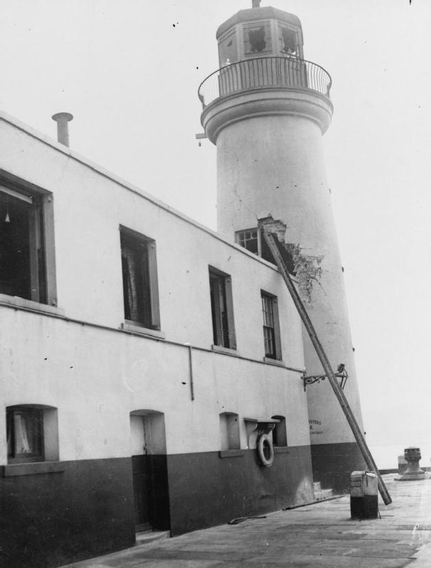 IWM caption : Damage to the lighthouse on Vincent's Pier, Scarborough, caused by shells from the German battlecruisers SMS DERFFLINGER and SMS VON DER TANN when the town was bombarded on the morning of 16 December 1914... During the bombardment by Hipper's battlecruisers the lighthouse was hit twice, one in the tower and once in the harbourmasters quarters. The damage to the lighthouse tower was considered so severe that the structure was considered unsafe and was demolished three days after the bombardment. Reconstruction of the tower was undertaken in 1931.